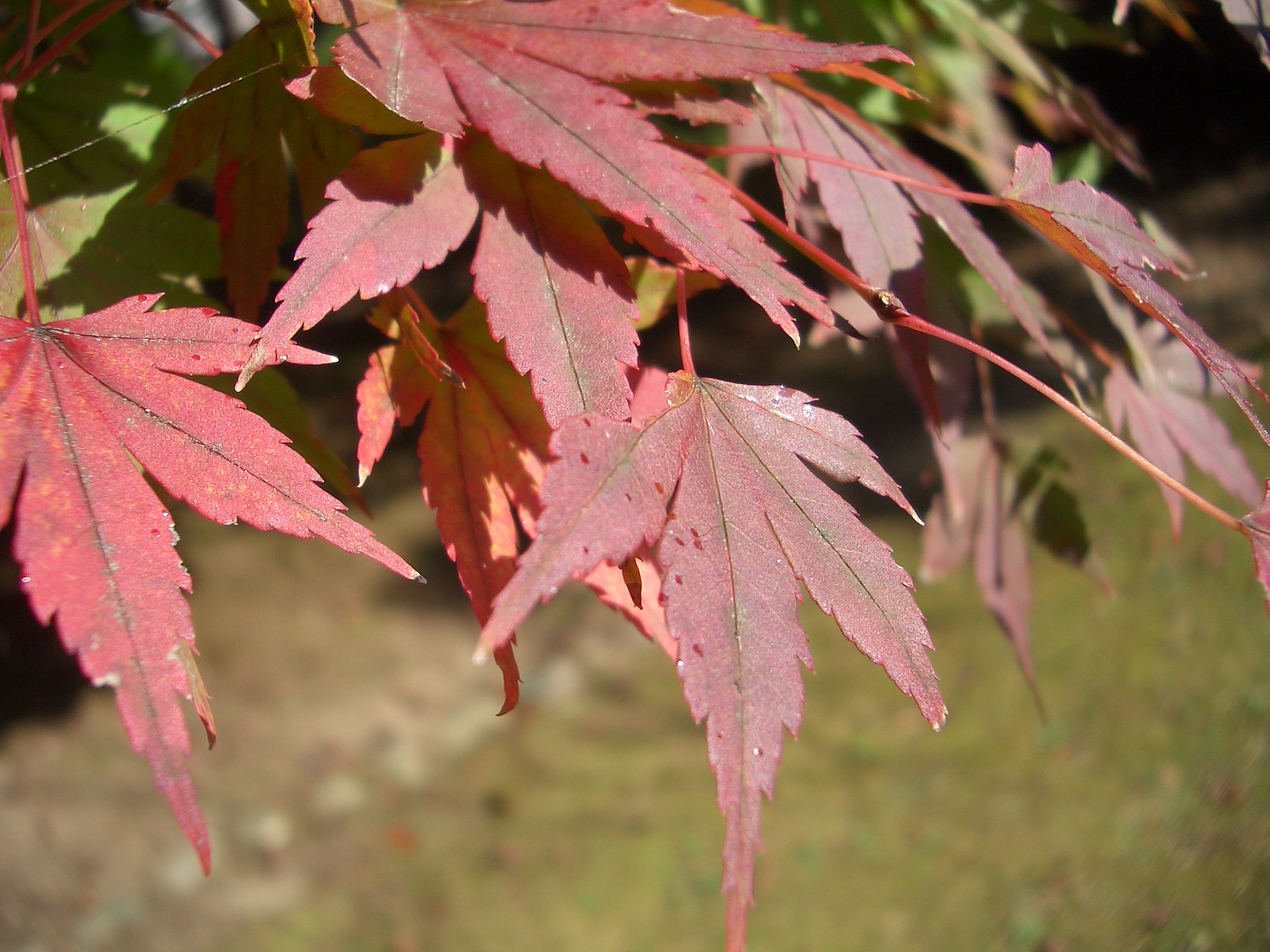 Maple leaves